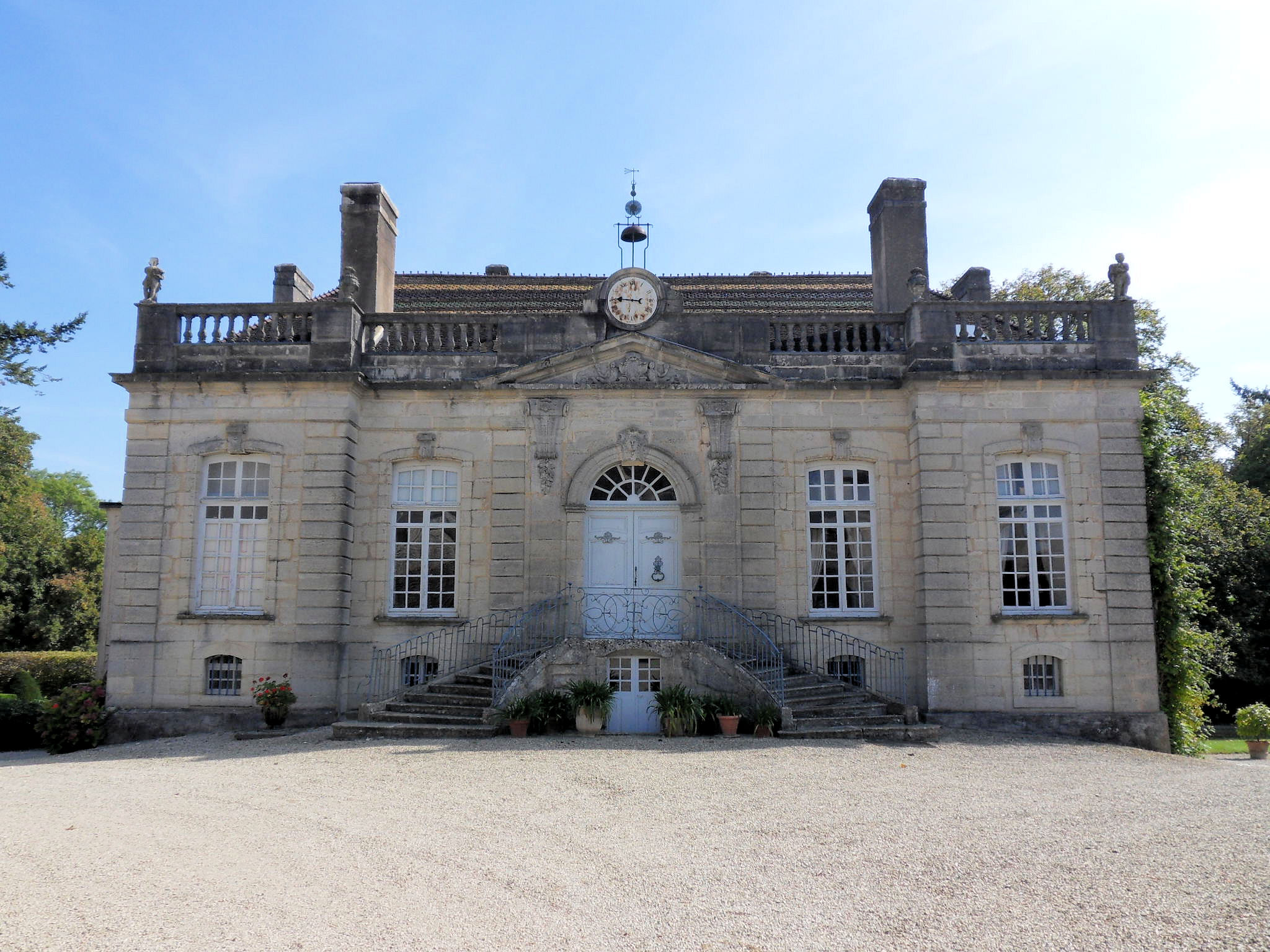 Beaumont-sur-Vingeanne, Côte-d'Or, Bourgogne, FRANCE Beaumont-sur-Vingeanne. Le château fut construit en (1706 ou 1708 ou en 1724 ?) pour l'abbé Claude Jolyot, (mort le 16 mai 1762), membre d'une famille au service des Saulx-Tavannes.